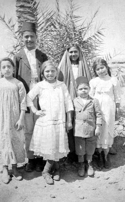 " Some Armenian women and children who had escaped from the general massacre of their compatriots, took refuge in the British lines. The official efforts were admirably backed up by the local Armenian community, headed by Mr. M.H. Kouymdjian of Baghdad, and Mr. Dervichyan, O.B.E. ,Honorary Belgian Consul at Basra ". SIR ARNOLD WILSON, MESOPOTAMIA, A CLASH OF LOYALTIES 1917